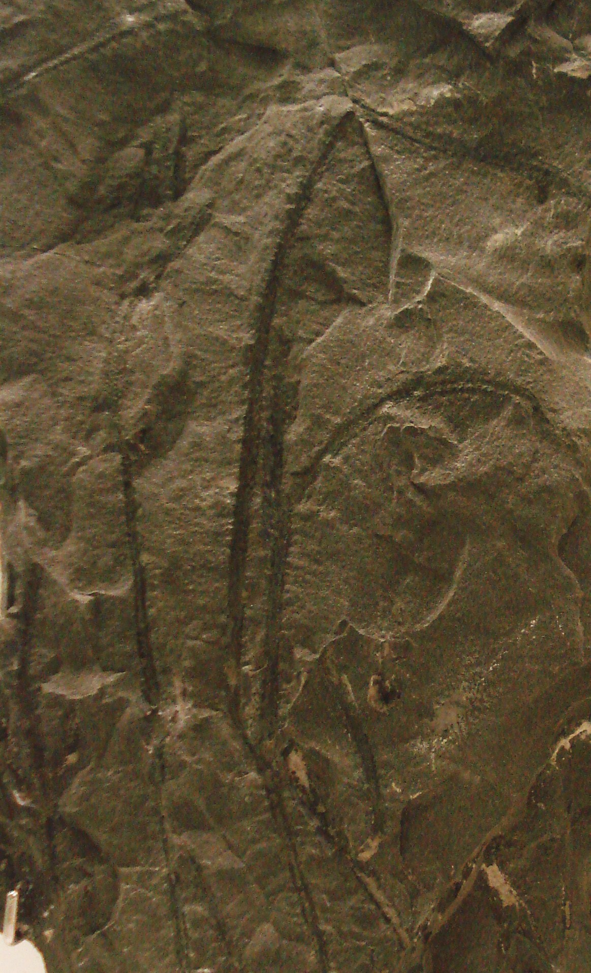 Fossil of Psilophyton dawsonii, an extinct plant